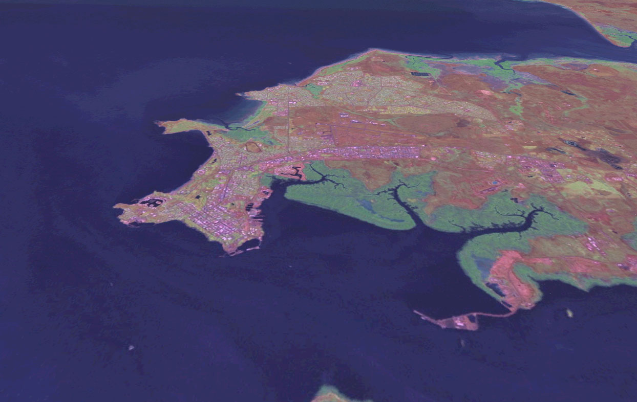 Worldwind image - Darwin, Northern Territory, Australia